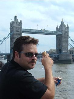 Picture of Ate Grijpstra